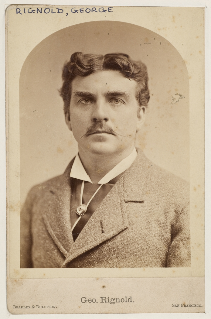 George Rignold was the stage name of George Richard Rignall. For a biography of George Rignold, go to .au/biography/rignall-george-richard-4478 Call Number: P1 / 1460 Format: photograph Find more detailed information about this photograph: Search for more great images in the State Library's collections: .au/search/SimpleSearch.aspx From the collection of the State Library of New South Wales